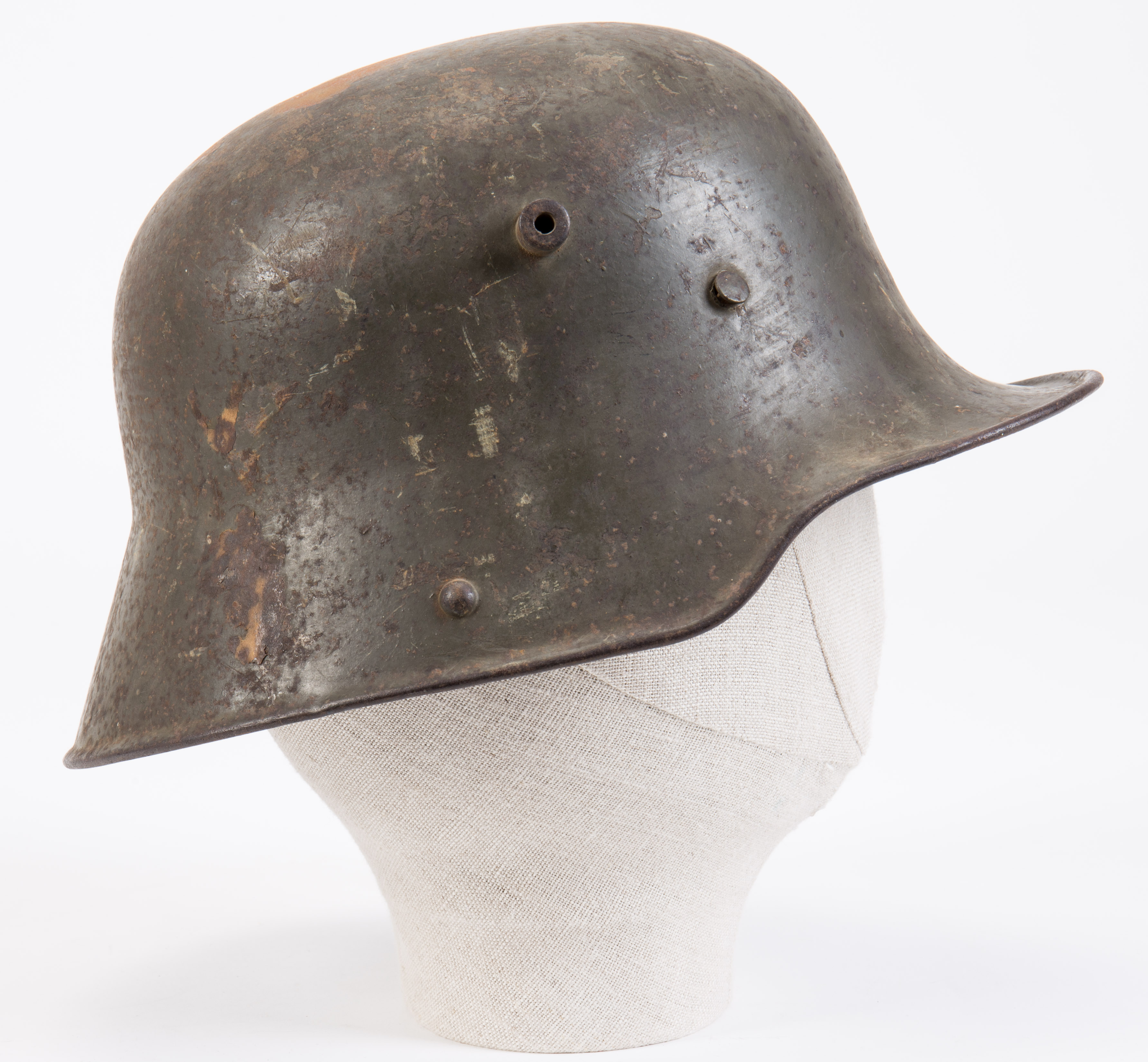 German M1916 steel helmet, WW1